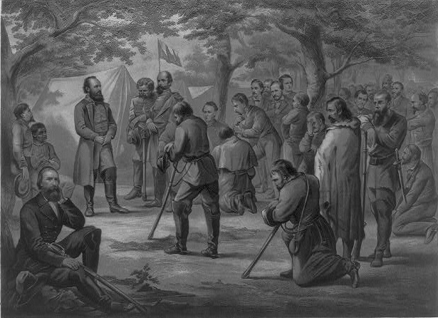 Engraving entitled: "Prayer in 'Stonewall' Jackson's Camp."